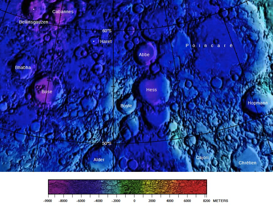 Part of the USGS South pole area lunar chart